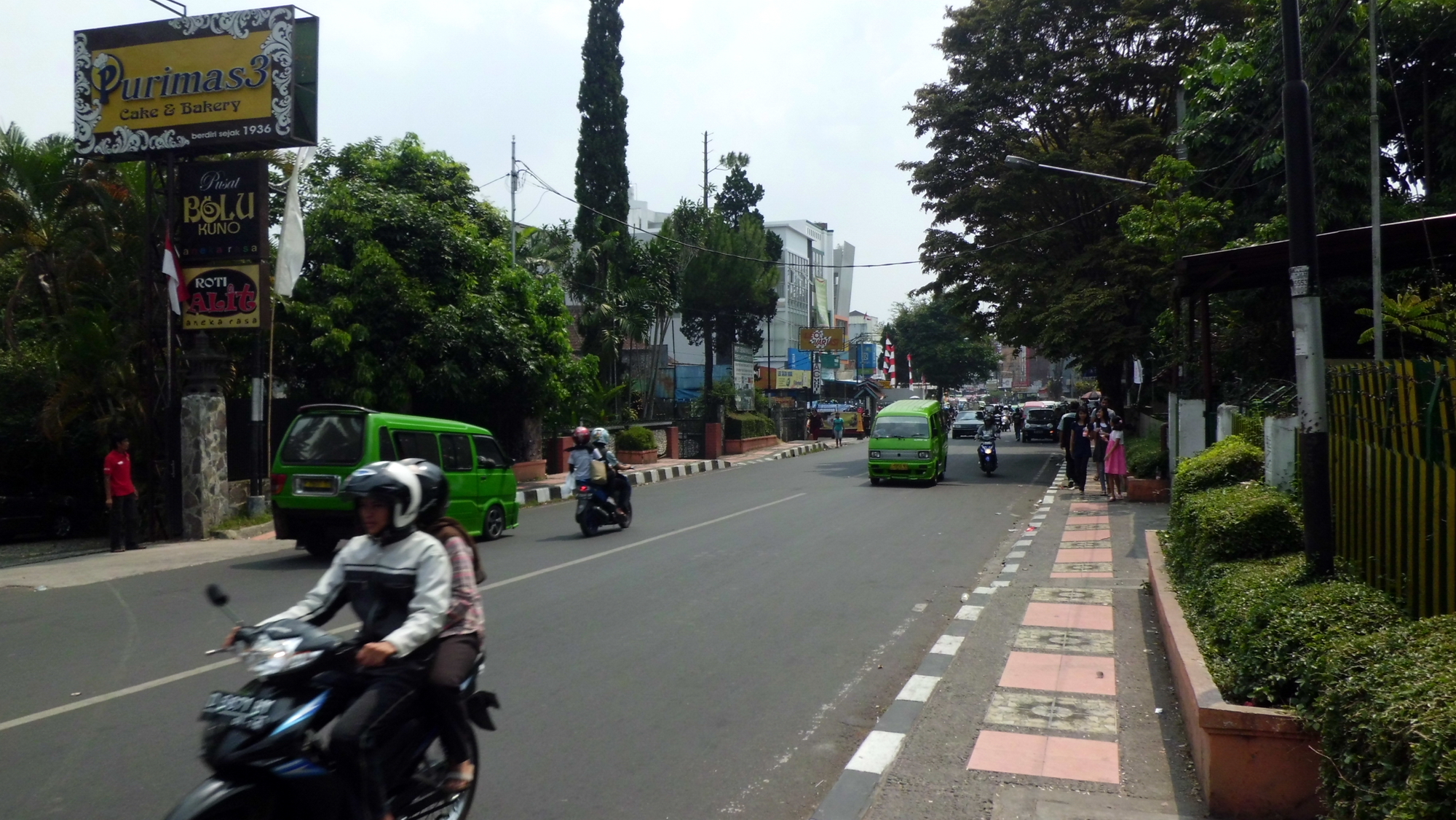 Raden Eddy Martadinata Road in Sukabumi, West Java, IndonesiaBahasa Indonesia: Jalan Raden Eddy Martadinata di Sukabumi, Jawa Barat, Indonesia